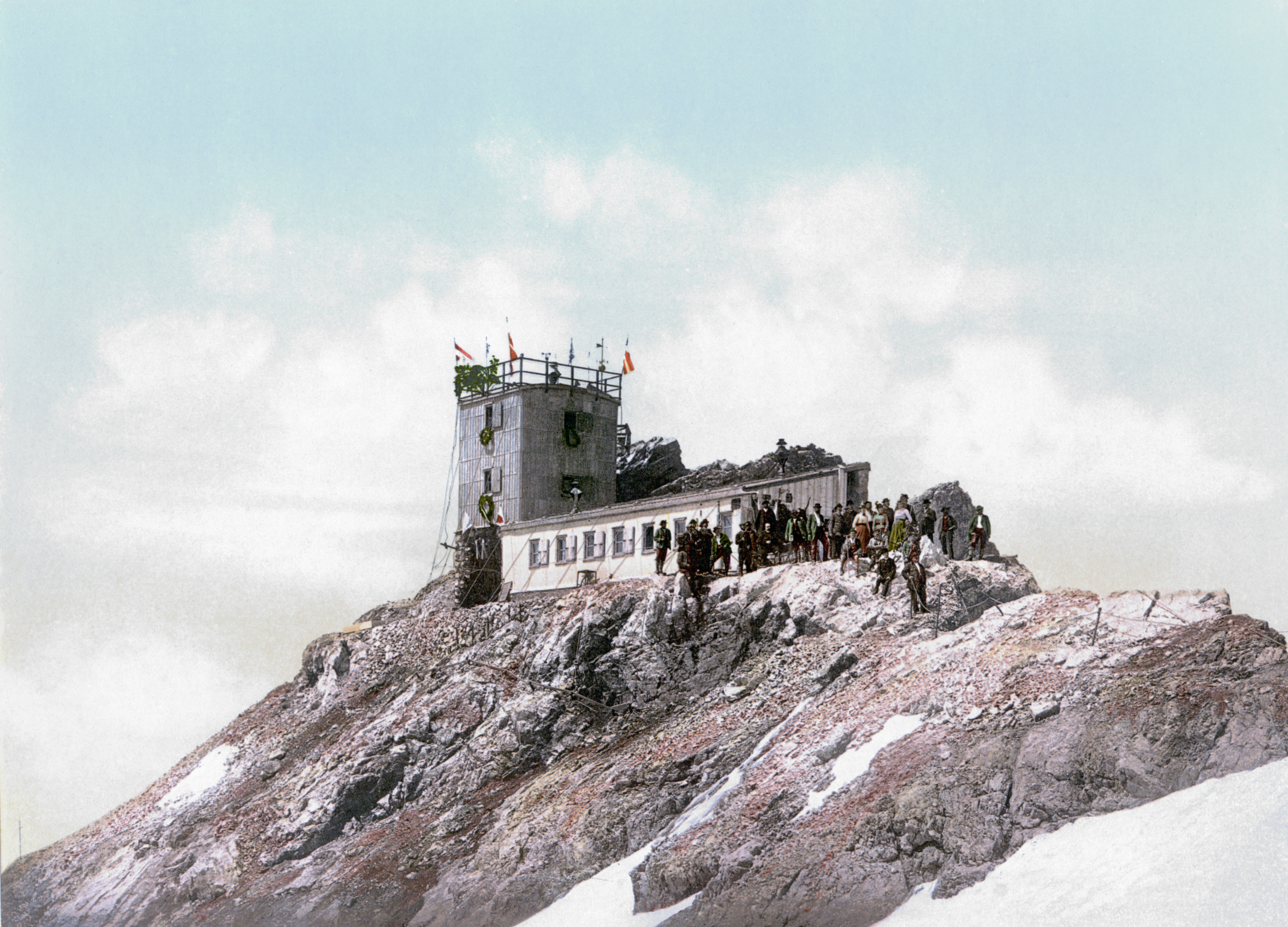 Inauguration of the meteorological observatory beside the Münchner Haus on top of the Zugspitzgipfel